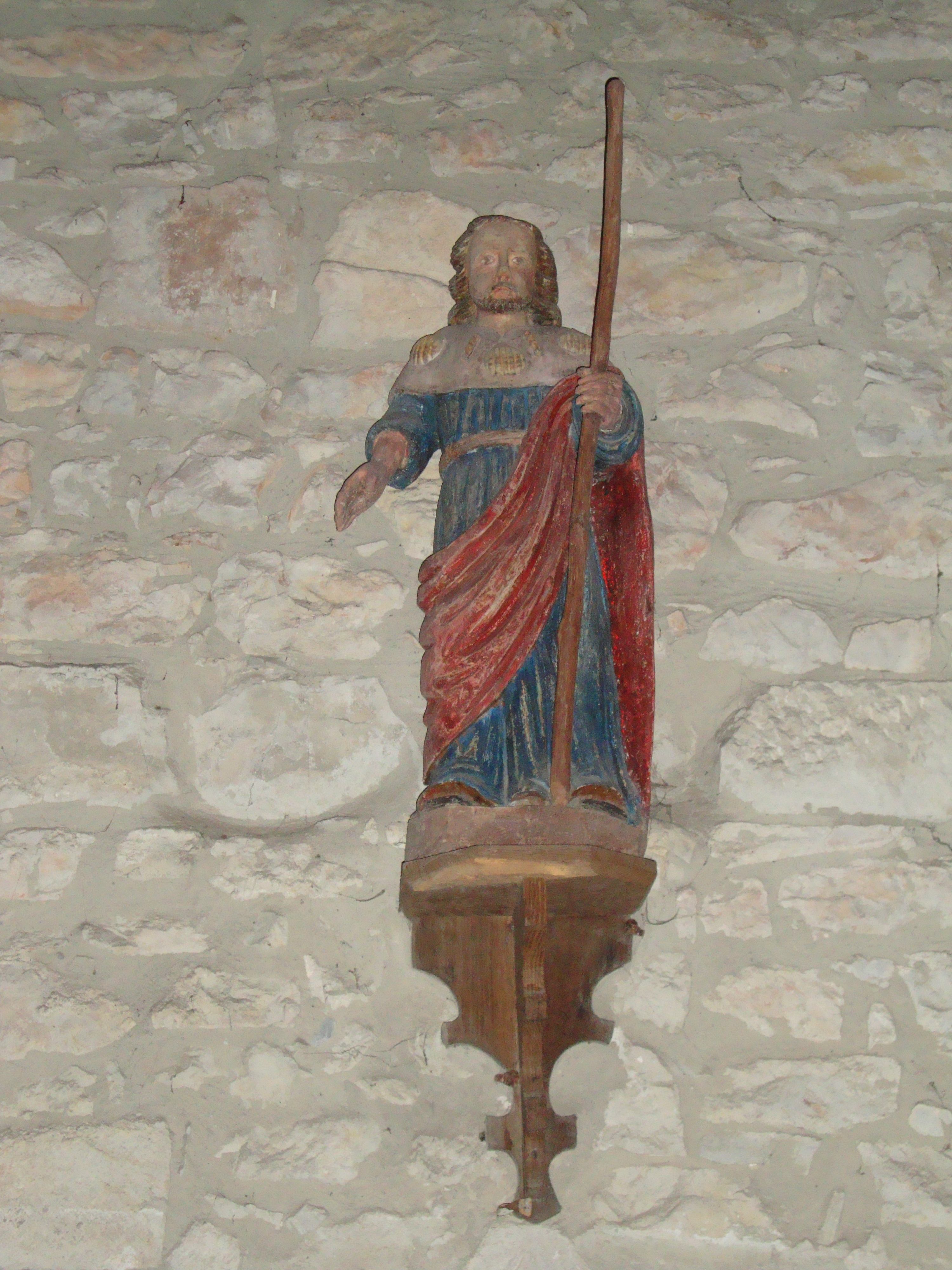 Lasseube (Pyr-Atl, Fr) statue pilgrim of St.James.